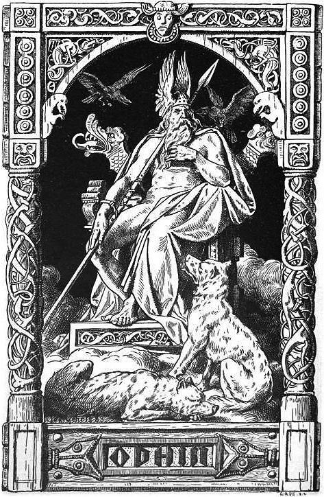 "Odhin" (1901) by Johannes Gehrts. The god Odin sits enthroned, flanked by his ravens Huginn and Munnin, and the wolves Geri and Freki.